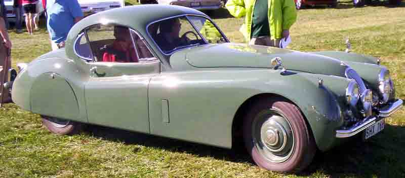 Jaguar XK120 Fixedhead Coupé 1954